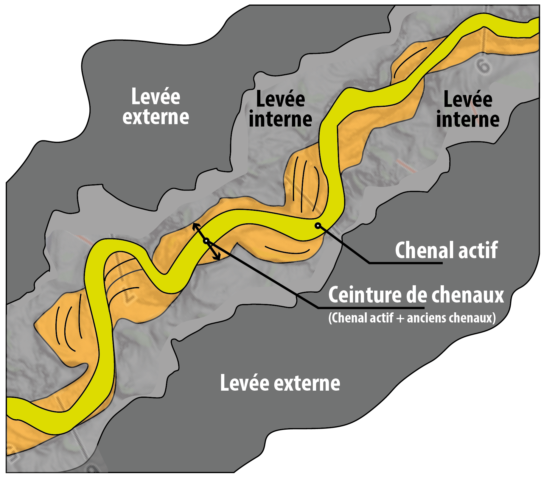 Channel belt with internal and external levees